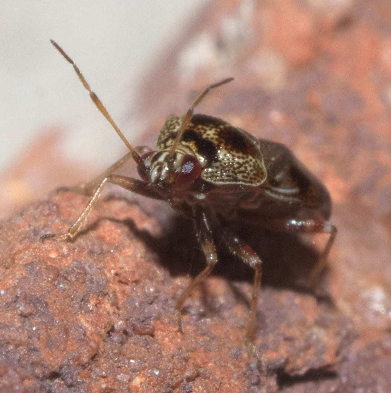 Deraeocoris nebulosus, Family: Plant Bugs, ID Confidence: 90